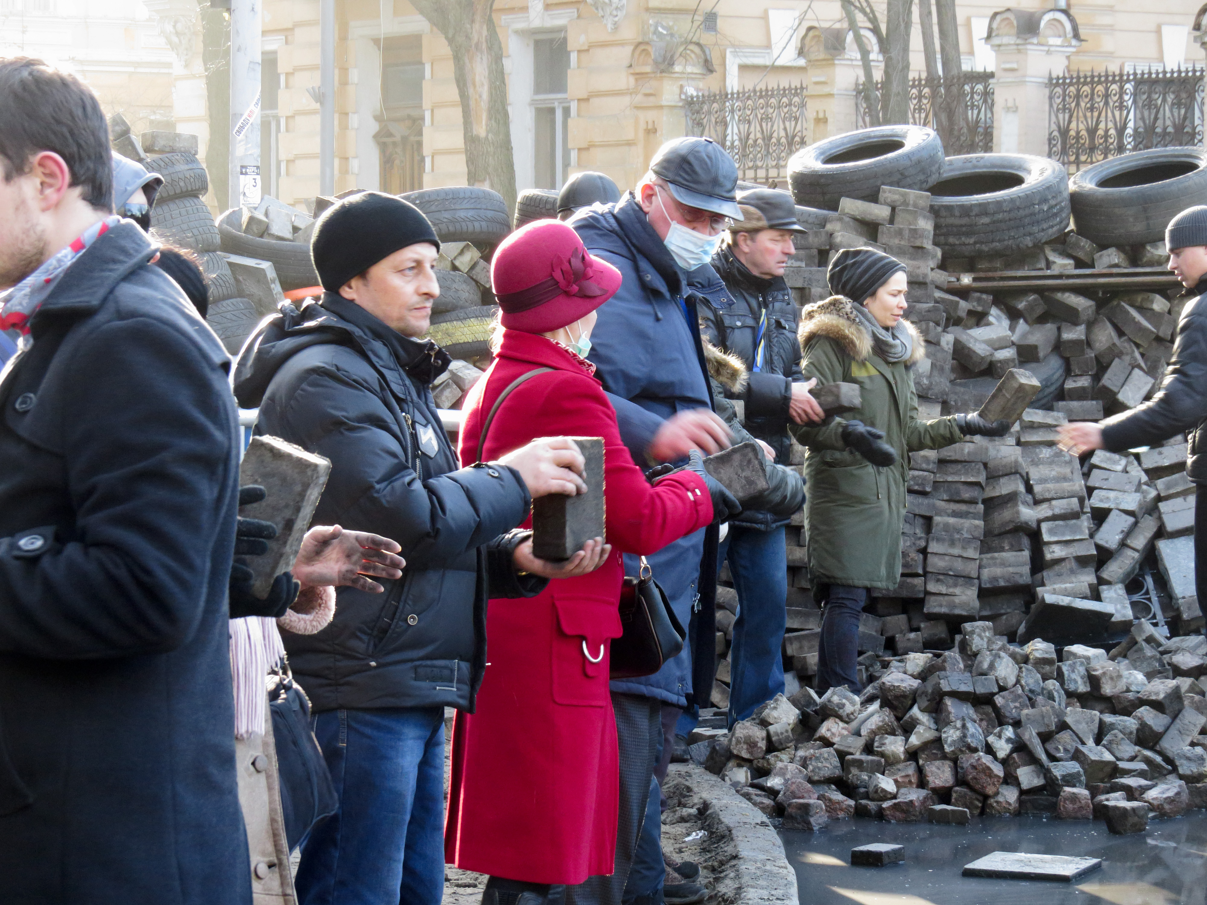 Euromaidan in Kiev. Institutska/Bankova streets crossing, citizens build a barricade.